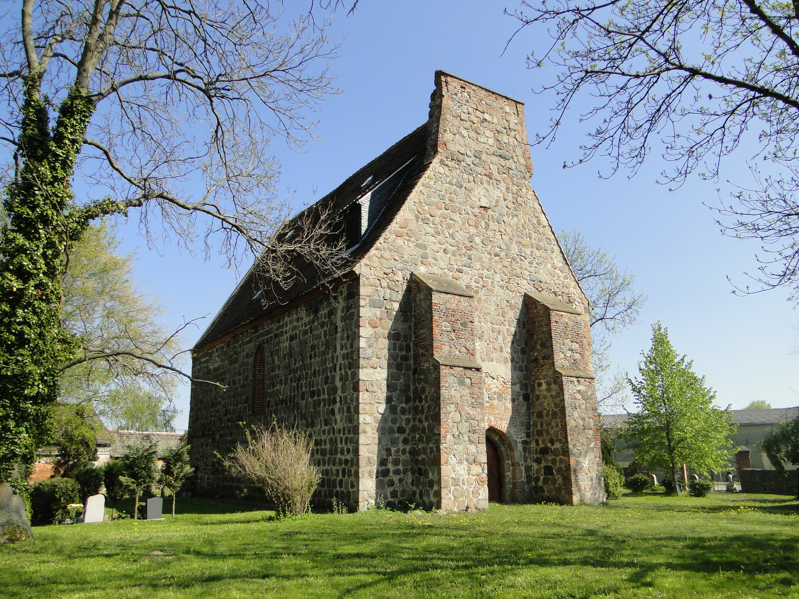 Church in Lindow, district Mecklenburg-Strelitz, Mecklenburg-Vorpommern, Germany